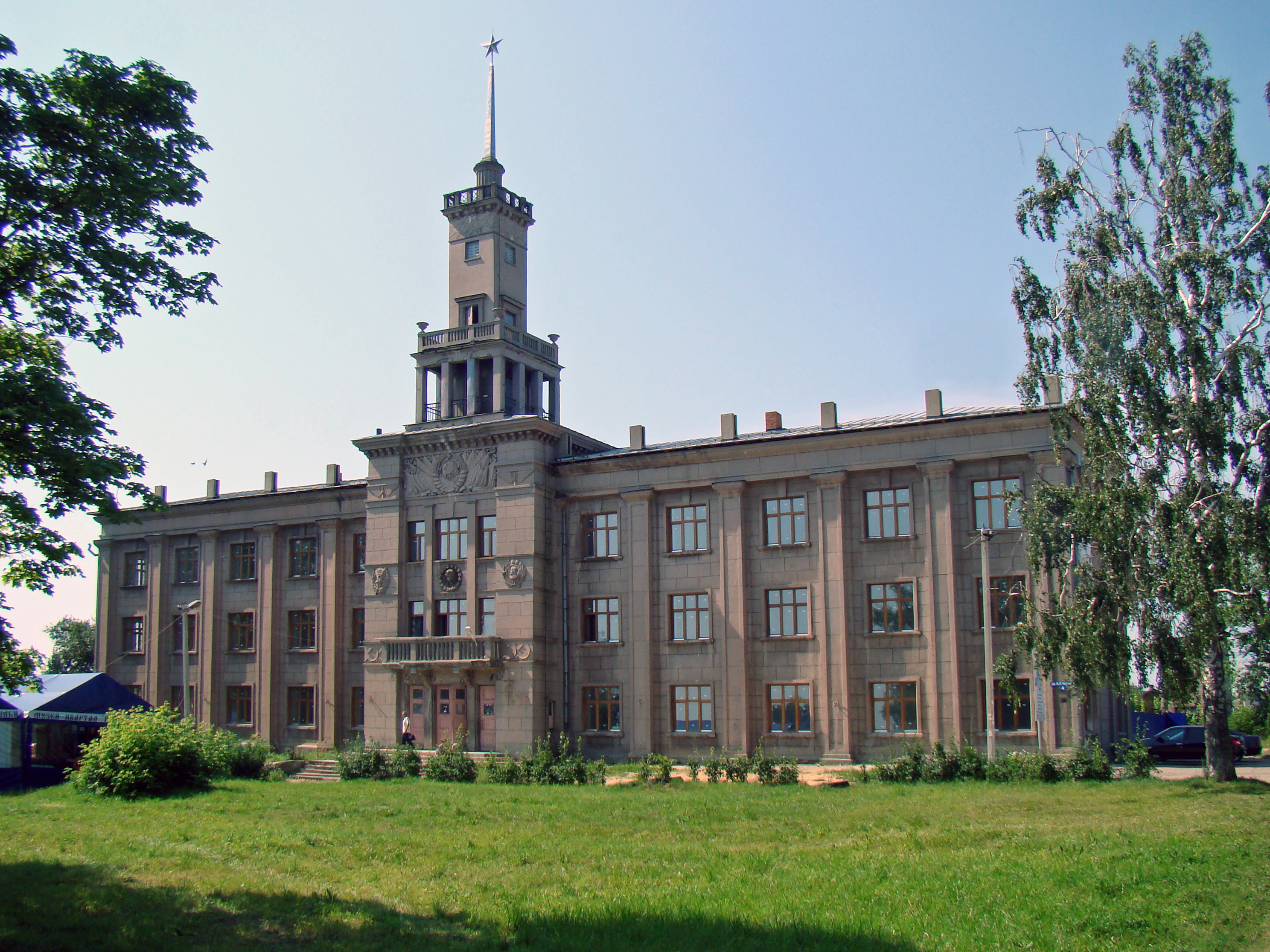 Valery Chkalov Palace of Culture in the town of Chkalovsk, Nizhny Novgorod Oblast (built in 1940)